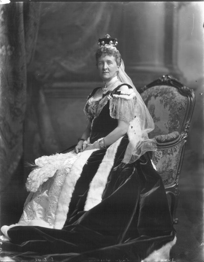 Beatrice (Constance), Baroness Chesham, later Lady Beatrice Moncreiffe 1858-1911, photographed 8 August 1911